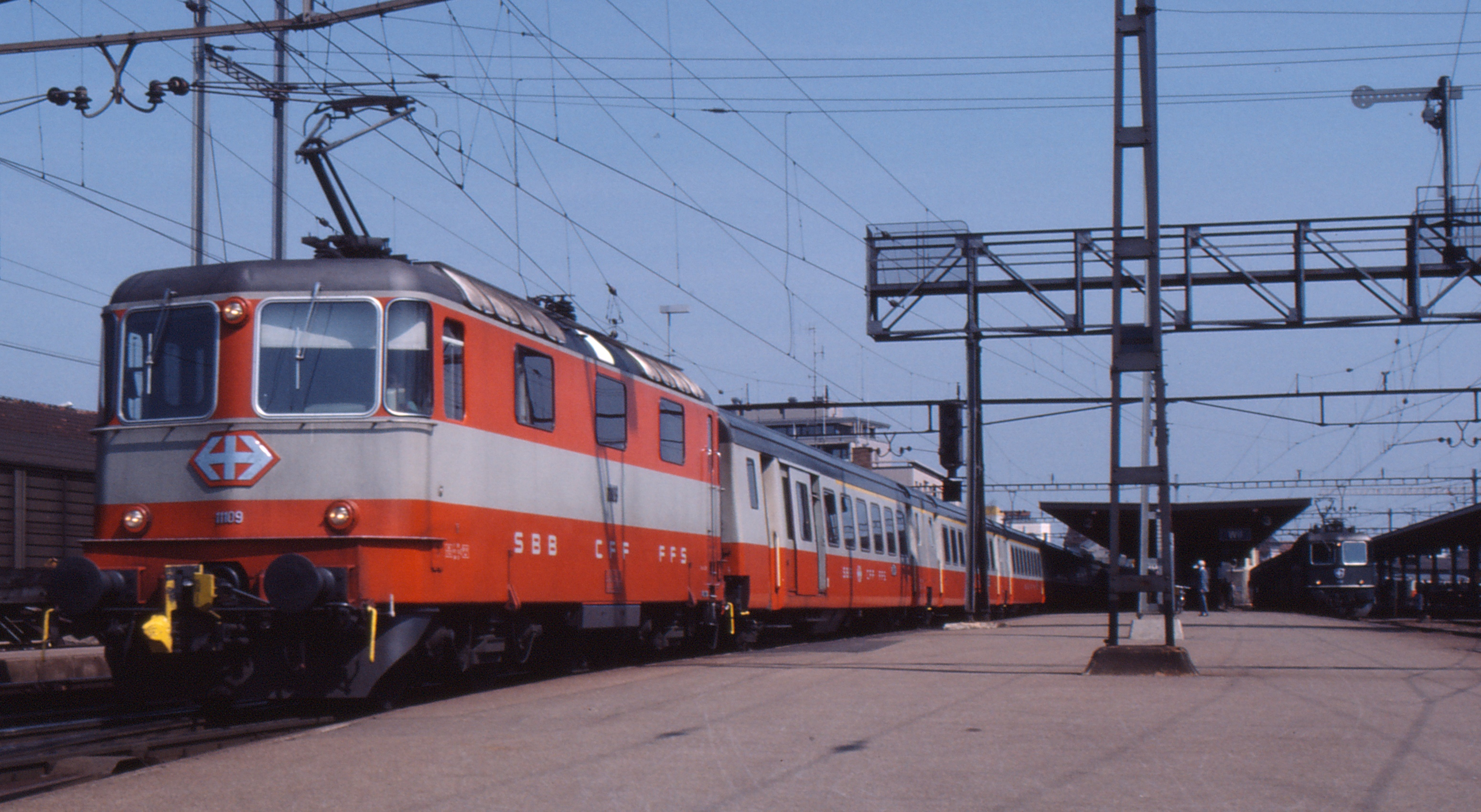 Swissexpress towed by Re 4/4 II